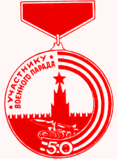 50 year Great October Revolution Parade medal